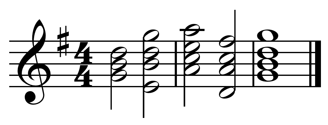 I-vi-ii-V turnaround in G. Created by Hyacinth (talk) using Sibelius 5.